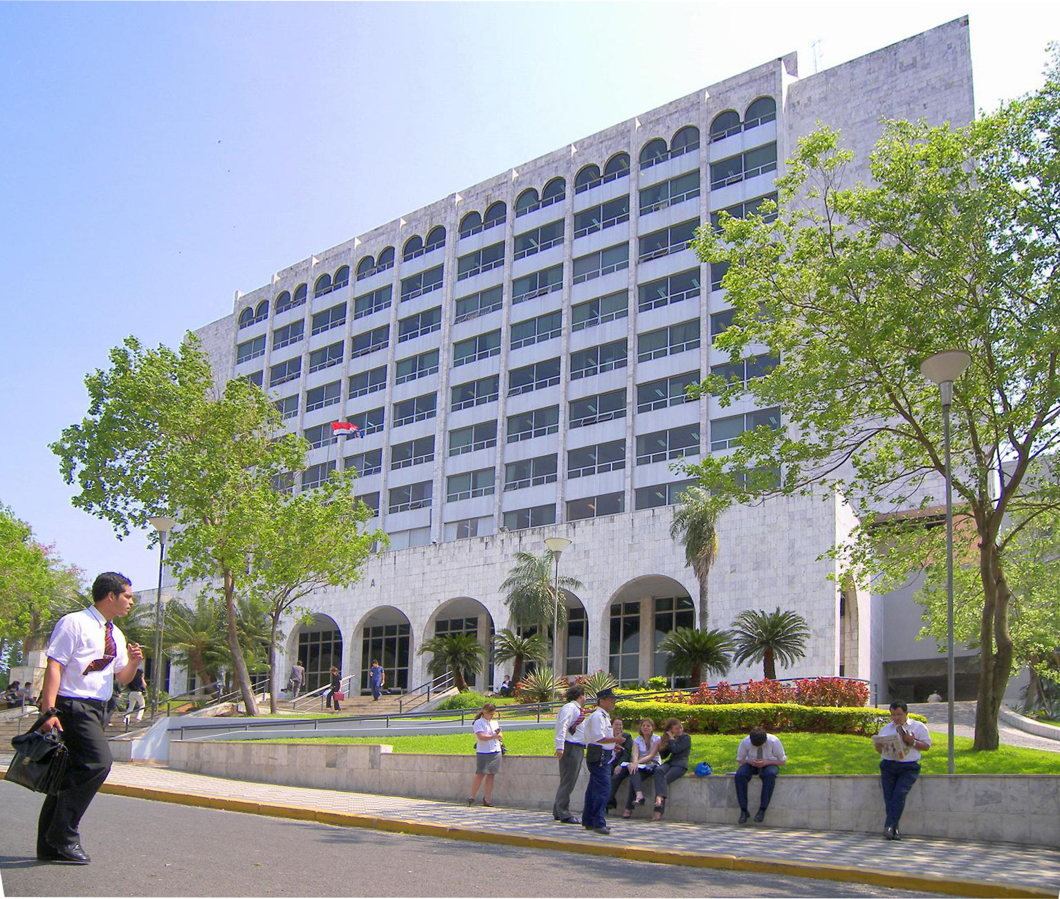 Palacio de Justicia del Paraguay